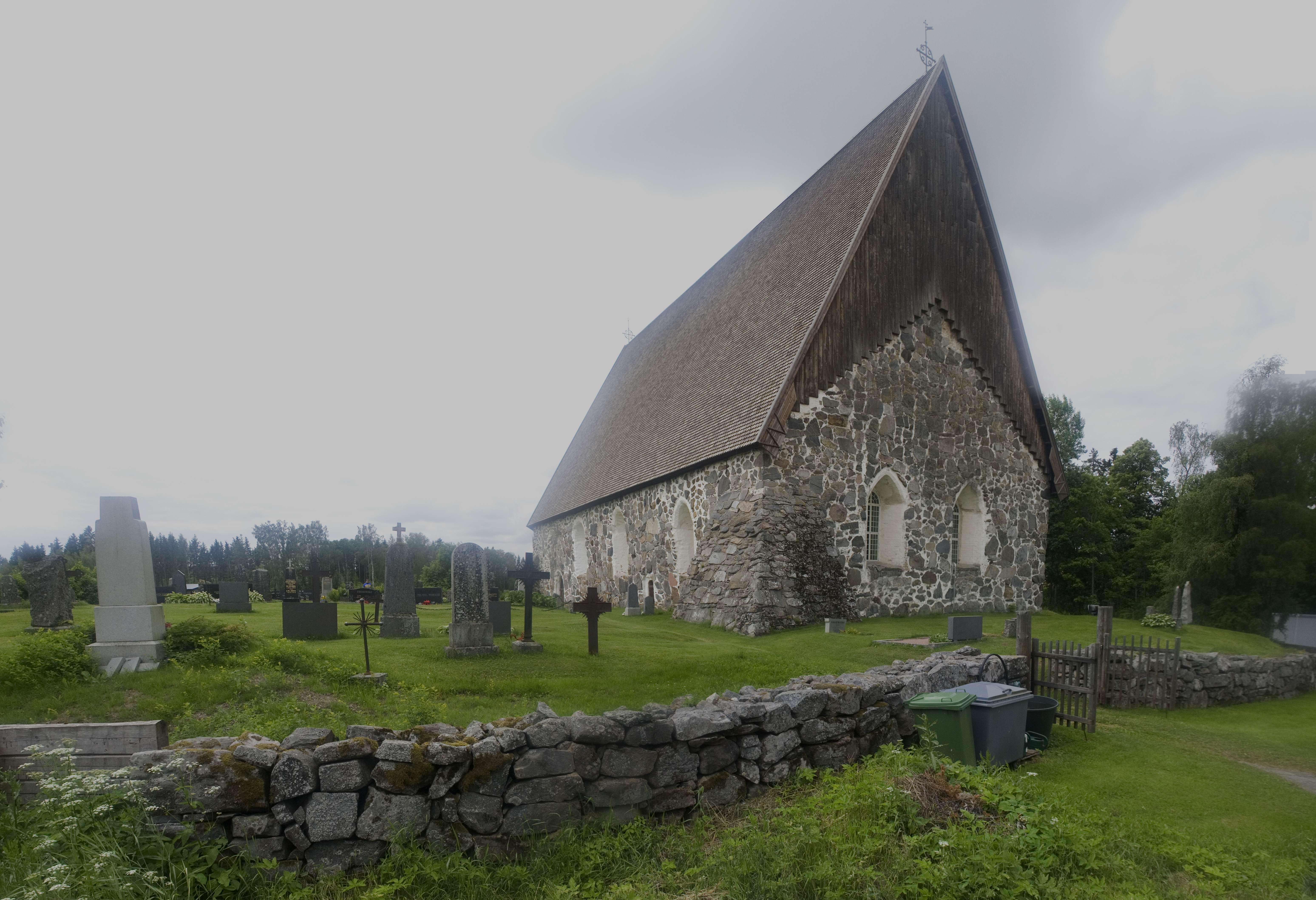 St Marian's church in Satamala; view from lake side